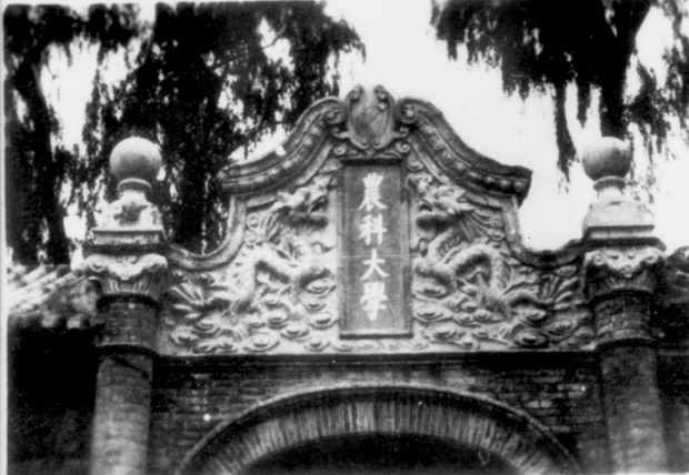 Gate of Agricultural Department, Imperial University of Peking